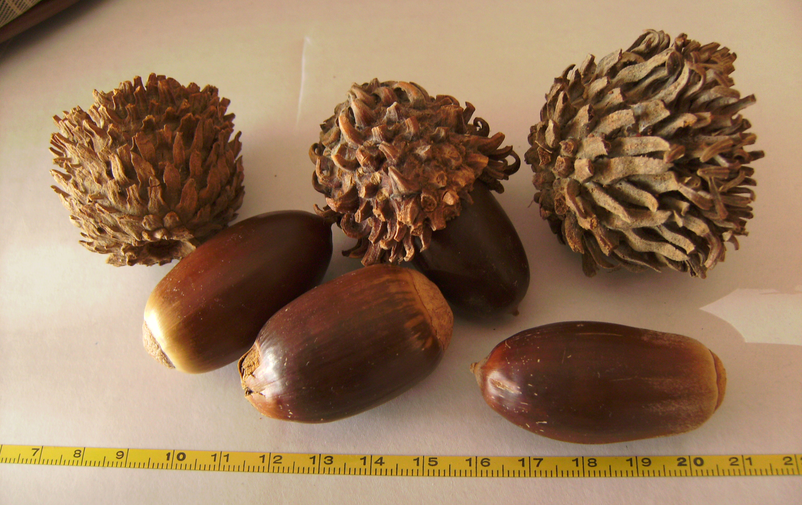 Quercus calliprinos acorns collected in Israel, january 2012